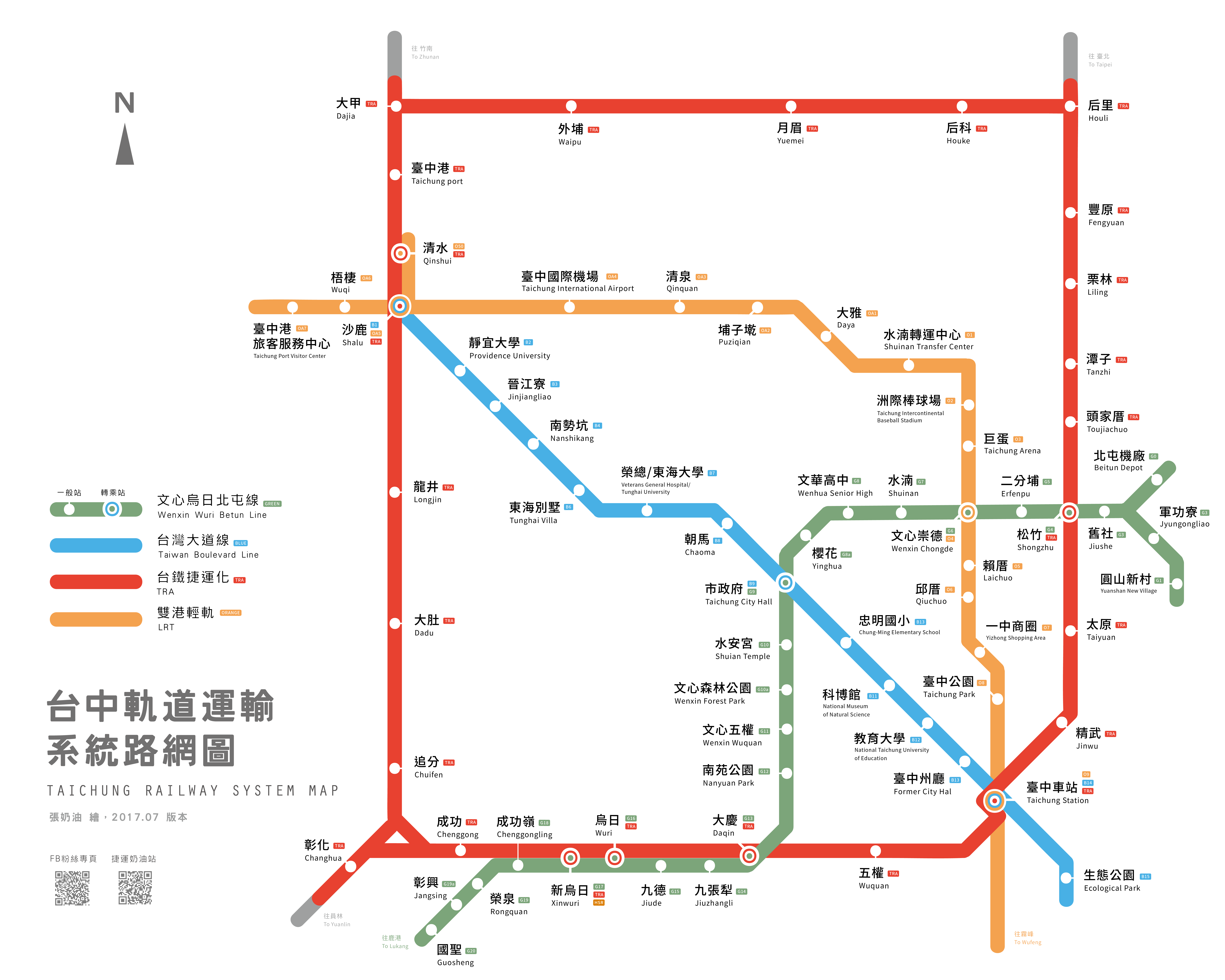 This is the metro map of Taichung/Taiwan.